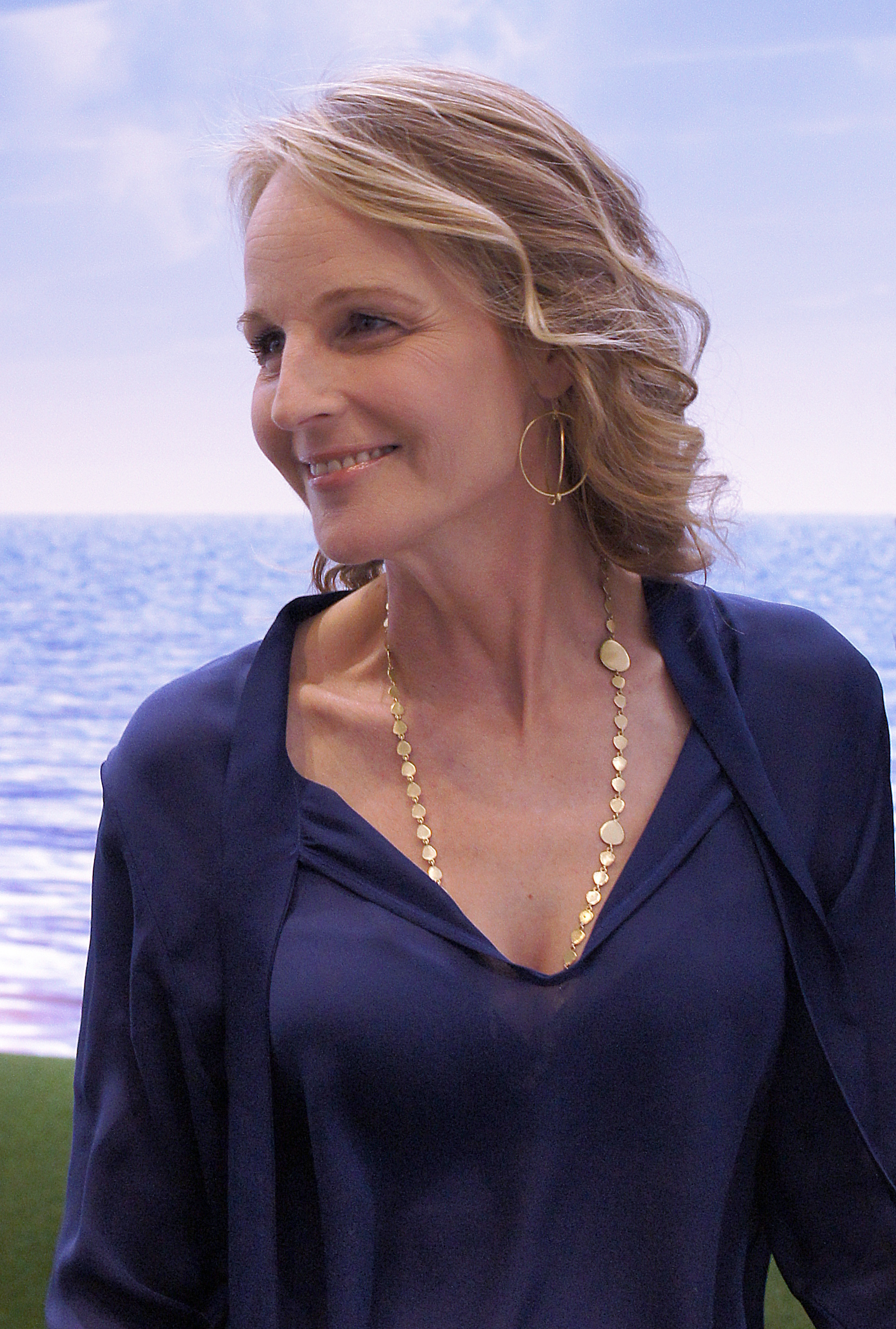 Helen Hunt at the international consumer goods trade fair "ambiente 2015" in Frankfurt, Germany, where she was invited as guest of honour at "USA Day". During a guided tour she visited some American and German exhibitors and met the famous designer Scott Henderson.